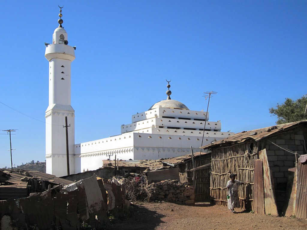 Local housing surrounds a mosque in Mendefera, Eritrea.